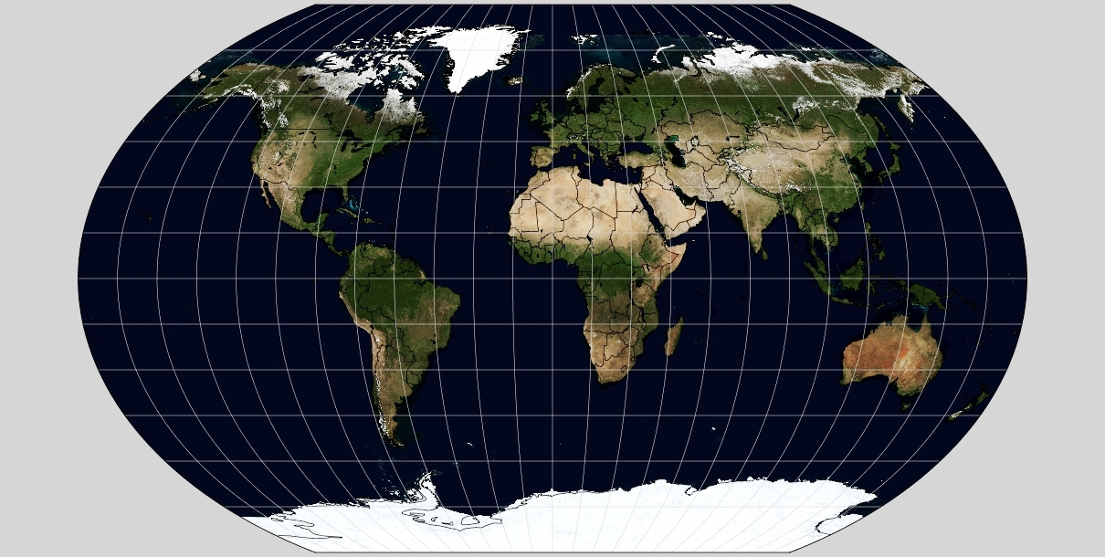 satellite world map, NASA Blue Marble Next Generation, June 2004, converted to Kavrayskiy VII projection, with country borders